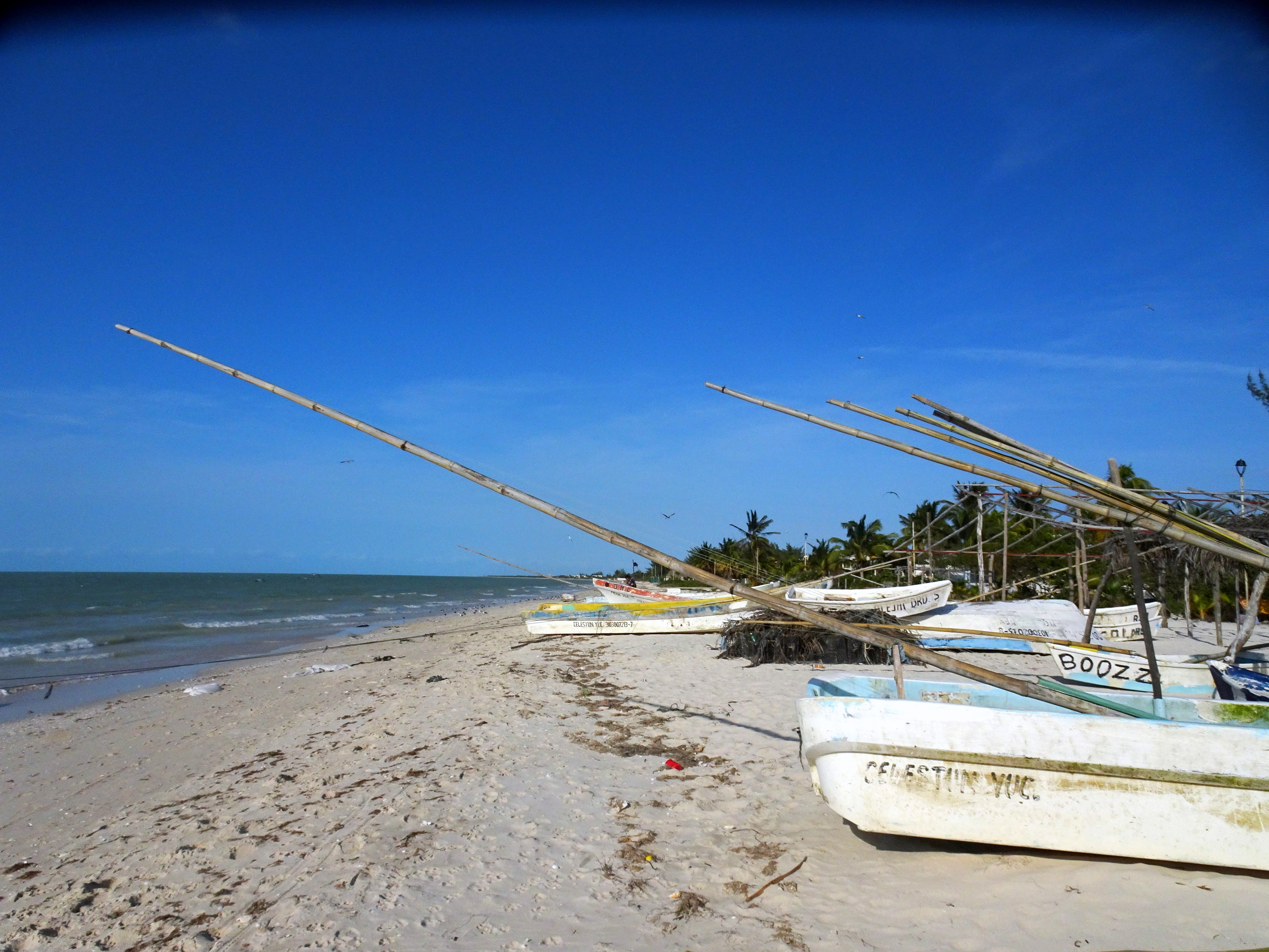 Fishing boats on the beach in Celestún